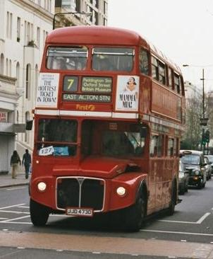 In April 2002, First London's Routemaster RML2473 (JJD 473D), operating from Westbourne Park garage, approaches Ladbroke Grove Station on its way from Bloomsbury to East Acton. The bus was withdrawn in July 2004 after the conversion of the 7 to OPO.